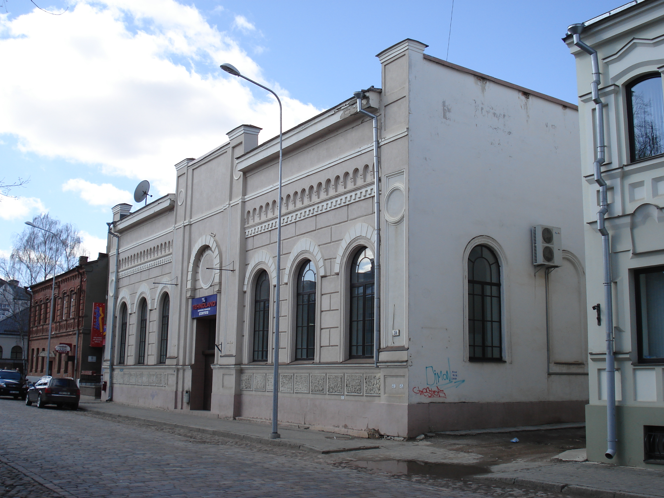 Listed building on 39 Lāčplēša Street, Daugavpils, formerly a synagogue.